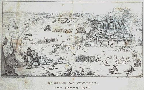 Bloodbath of Oudewater 1575, after original by Dirk Stoop